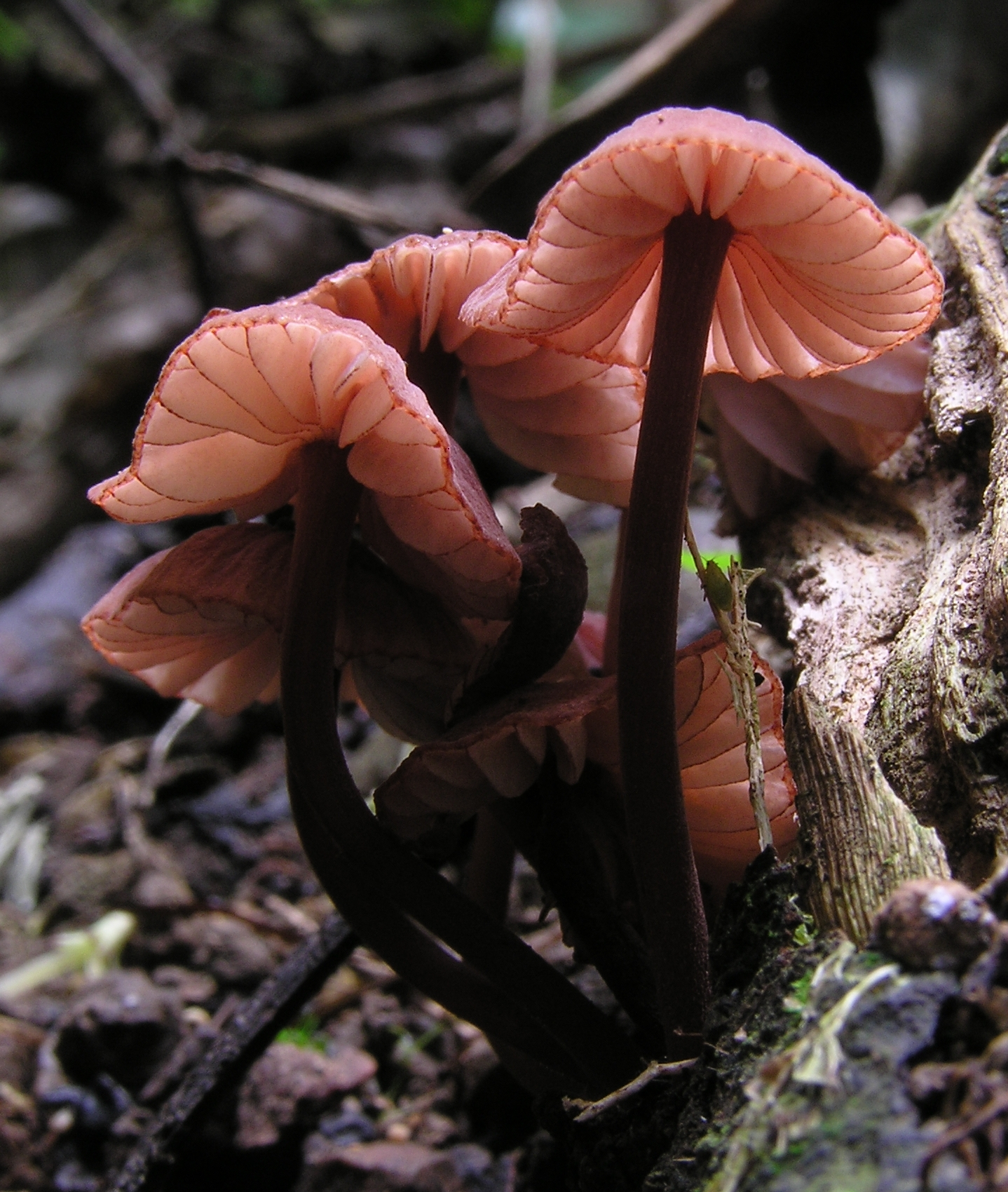 Clusters of small red/pink fungi with red gill edges, probably Mycena rubroglobulosa, growing on rotten wood, Wellington, New Zealand.